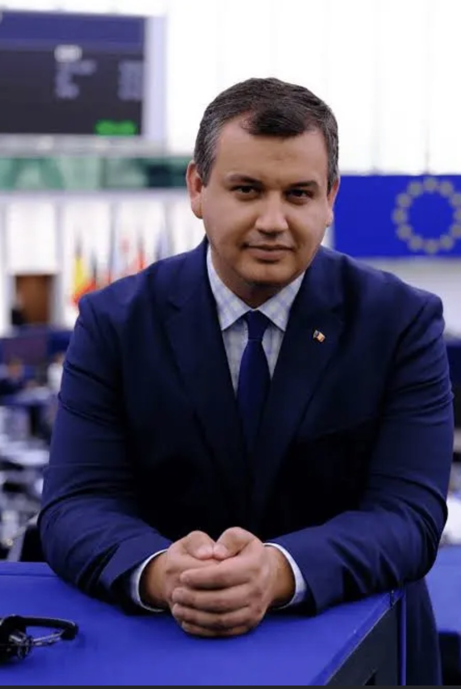 Eugen Tomac, Leader of the People's Movement Party